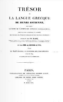 Front cover of a 1830 re-edition of the Thesaurus Graecae Linguae by Renaissance scholar Henri Estienne (Paris, Didot, 1830). Screenshot from the Gallica digital library, Bibliotheque Nationale de France.